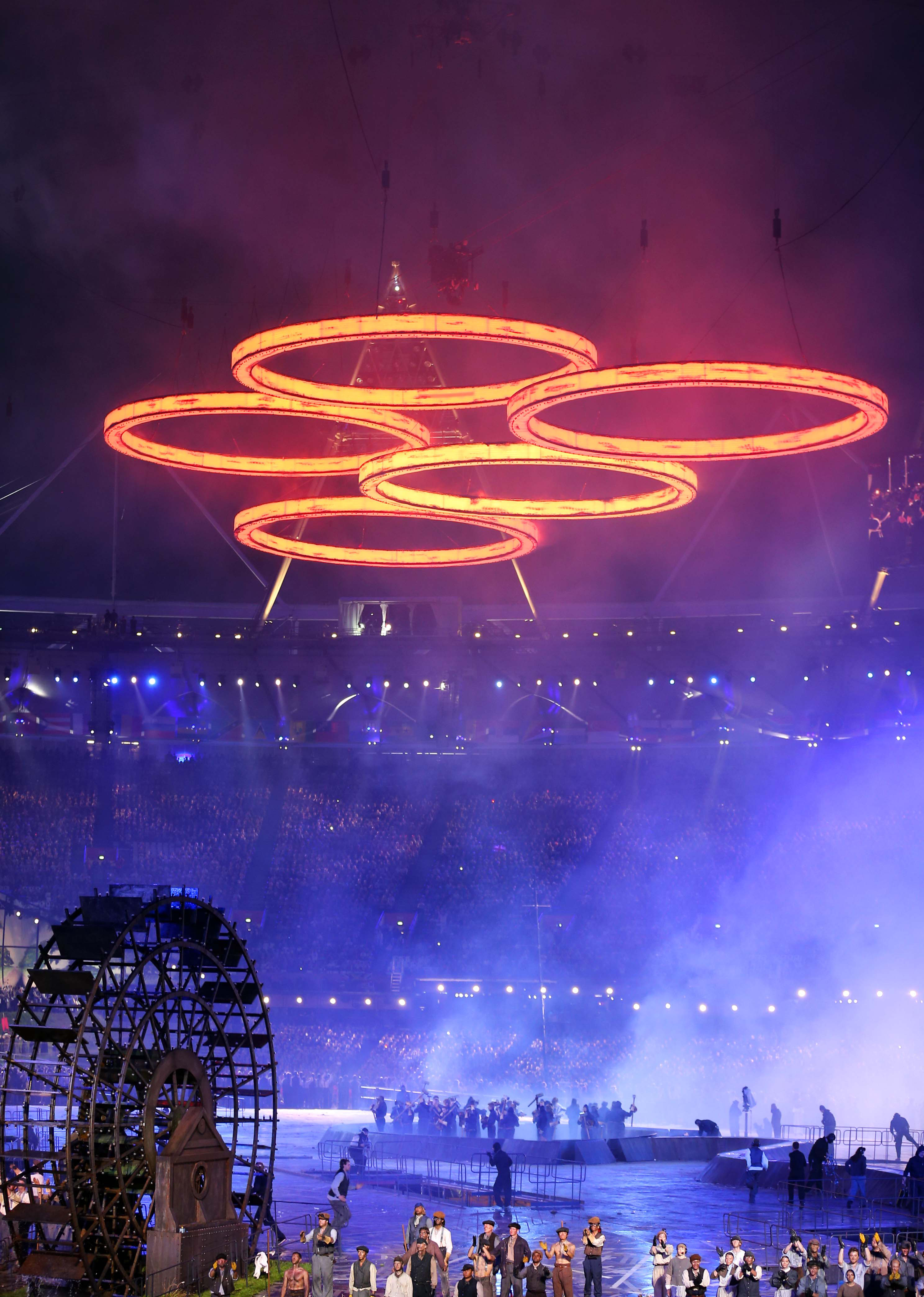 2012 London Olympic Games Opening Ceremony Team Korea 2012.7.29. Photo by Korean Olympic Committee Ministry of Culture, Sports and Tourism Korean Culture and Information Service 2012 런던 올림픽 개막식 행사 한국대표팀 입장 사진제공 - 대한체육회 문화체육관광부 해외문화홍보원